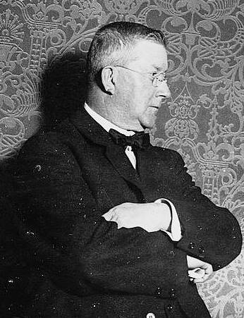 Bain News Service,, publisher. Charles Francis Murphy [between 1910 and 1915] 1 negative : glass ; 5 x 7 in. or smaller. Notes: Title from unverified data provided by the Bain News Service on the negatives or caption cards. Forms part of: George Grantham Bain Collection (Library of Congress). Format: Glass negatives. Repository: Library of Congress, Prints and Photographs Division, Washington, D.C. 20540 USA, General information about the Bain Collection is available at Persistent URL: Call Number: LC-B2- 2453-4